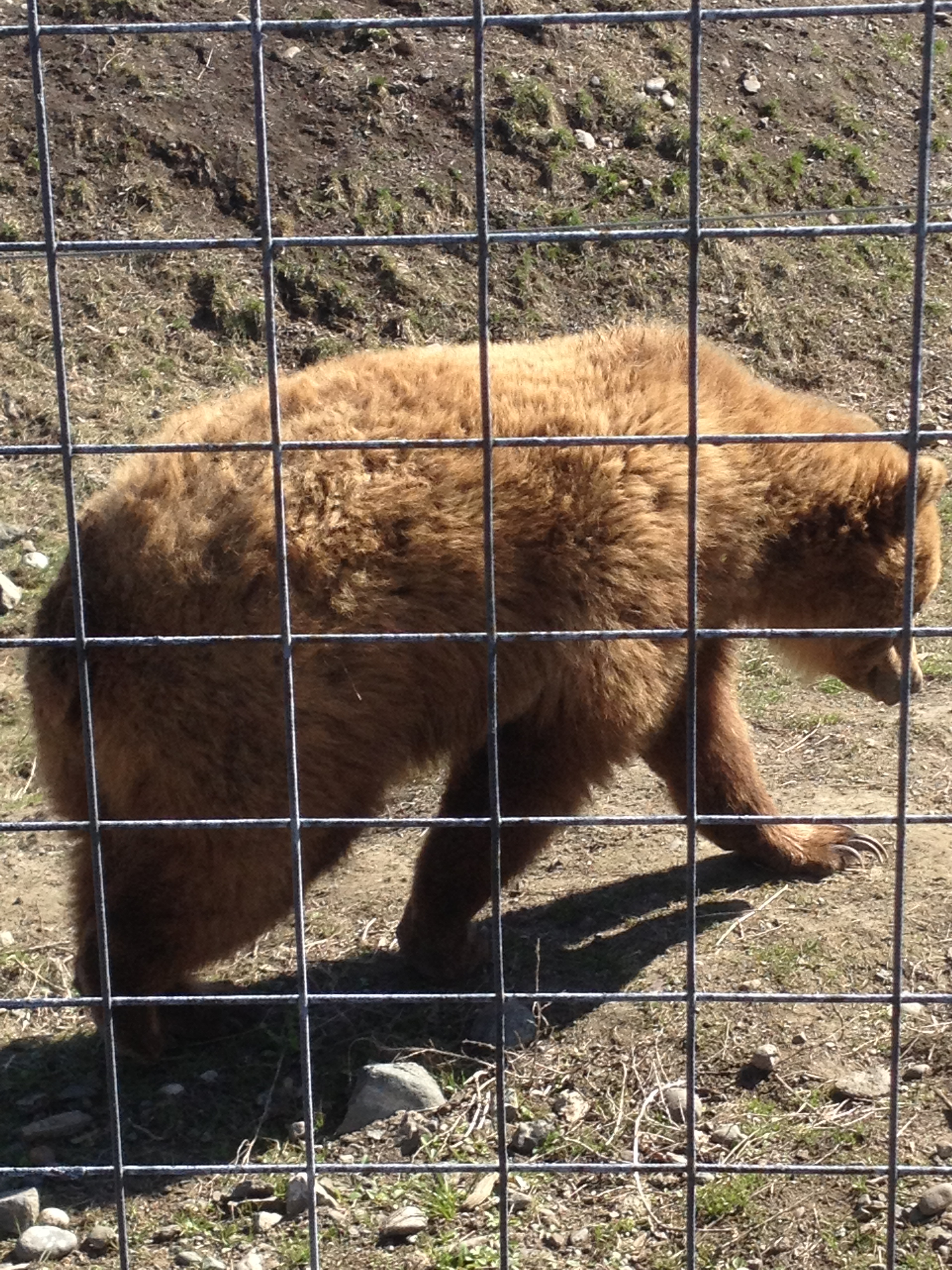 A grizzly bear walking at the zoo, British Columbia Wildlife Park, in Kamloops, British Columbia.